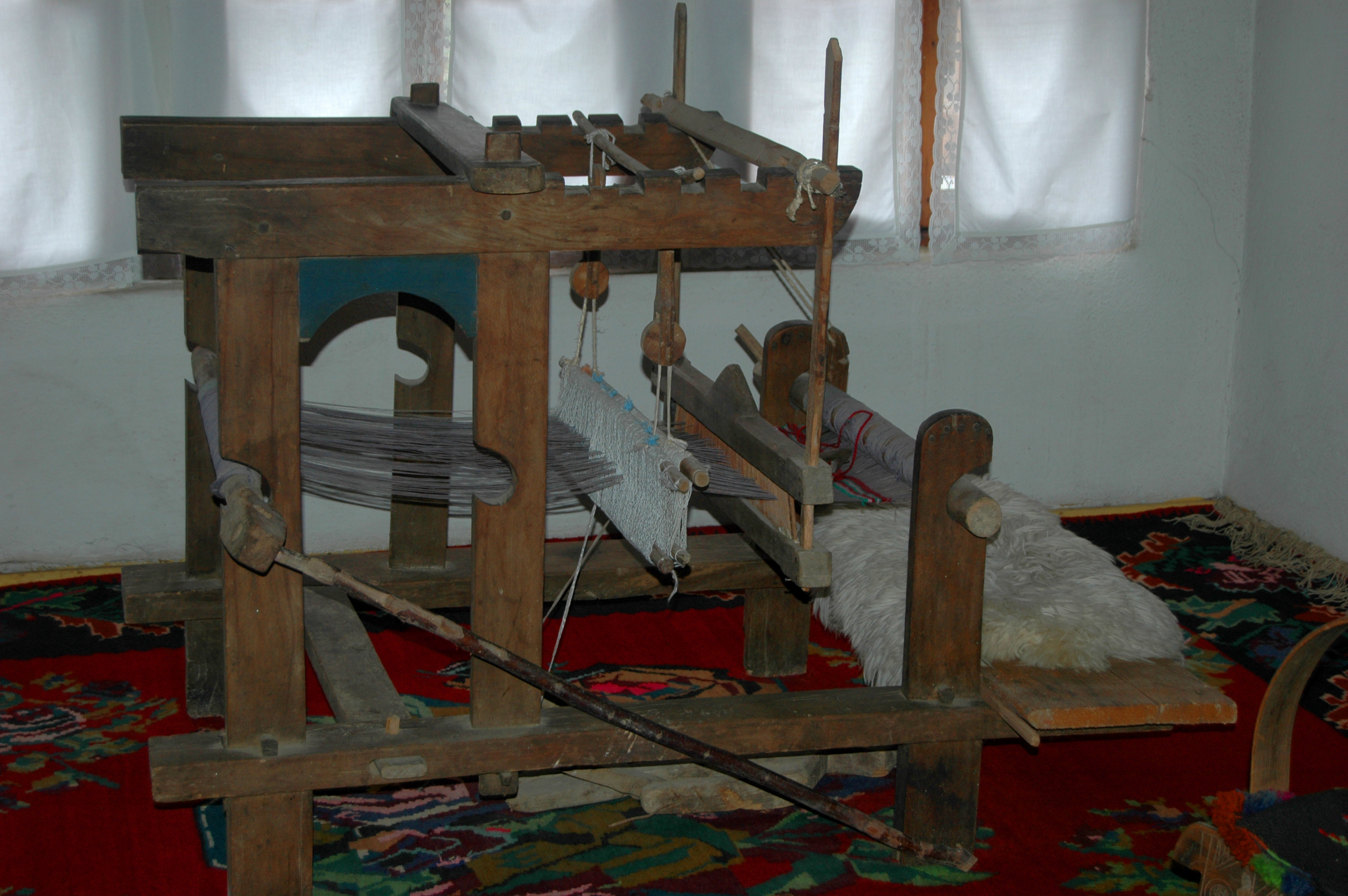 photo: Arian Selmani